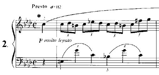 Beginning of the Étude Op. 25 No. 2 by Fryderyk Chopin.